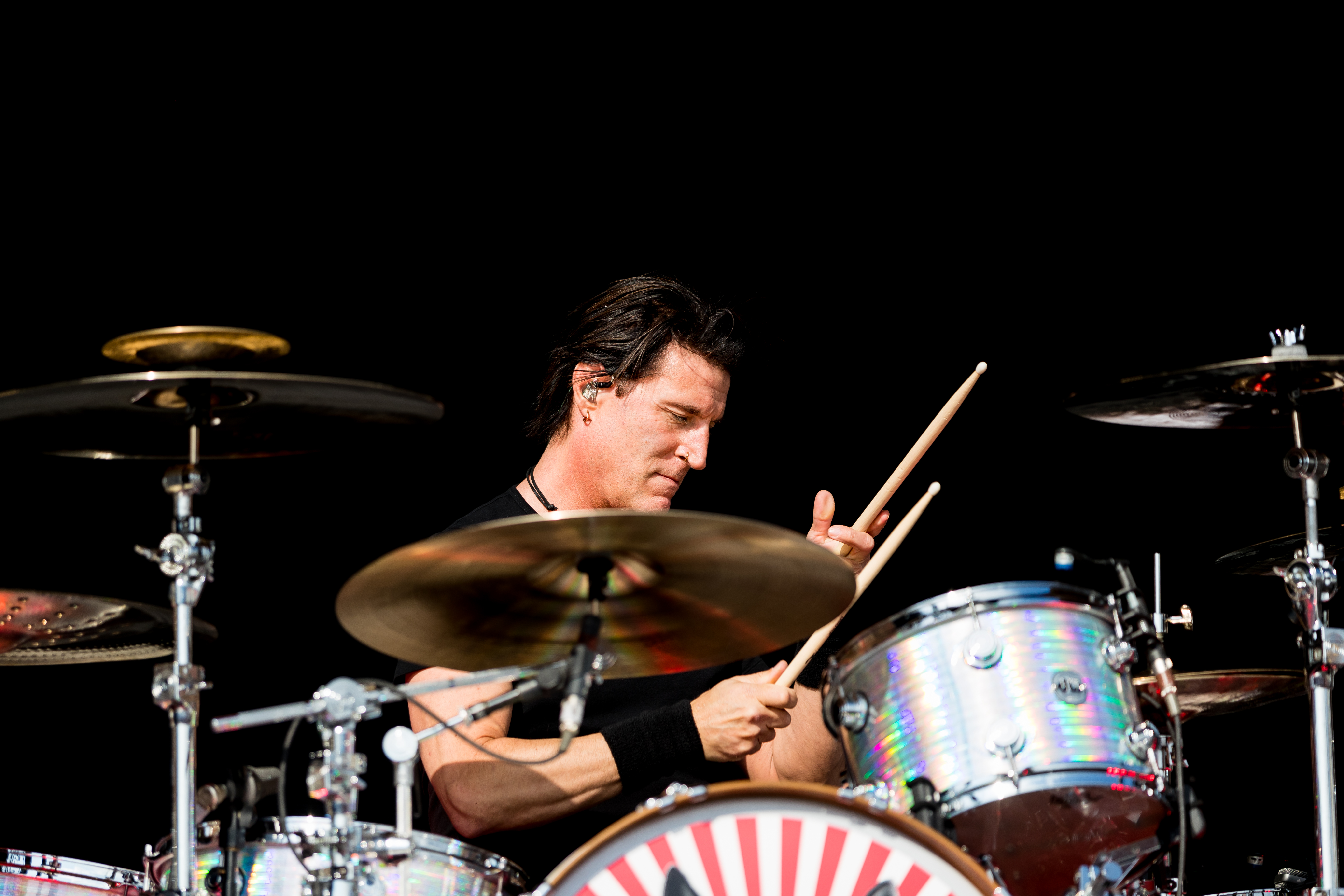 Alice in Chains during Rock am Ring ( at Nürburgring, Rheinland-Pfalz, Germany on 2019-06-07, Photo: Sven Mandel Promotion by Live Nation (